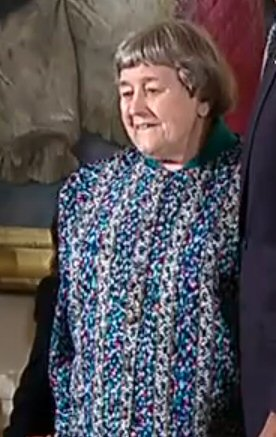 Yvonne Brill being honored by President Obama